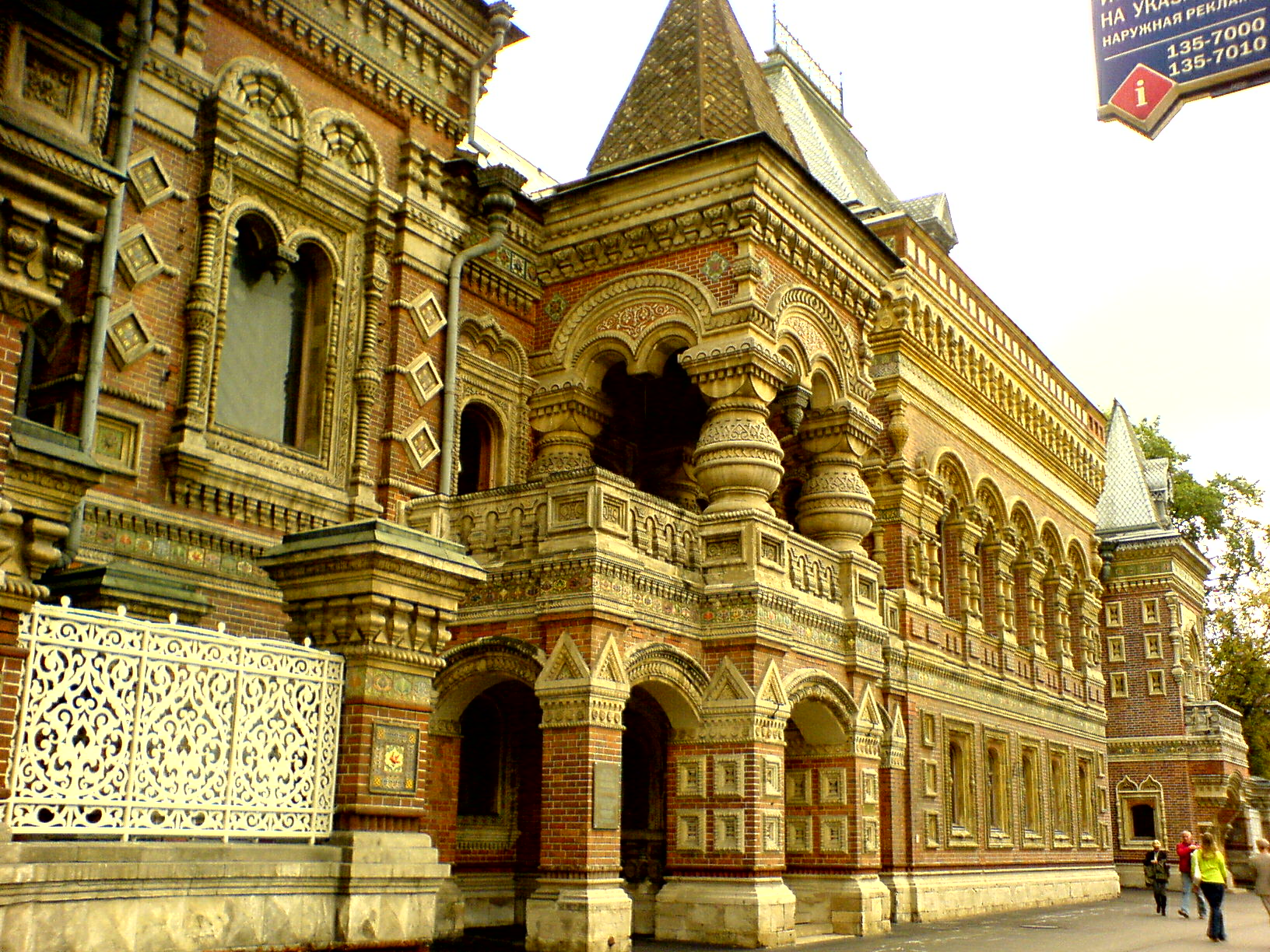 Embassy of the French Republic in Moscow, Russia